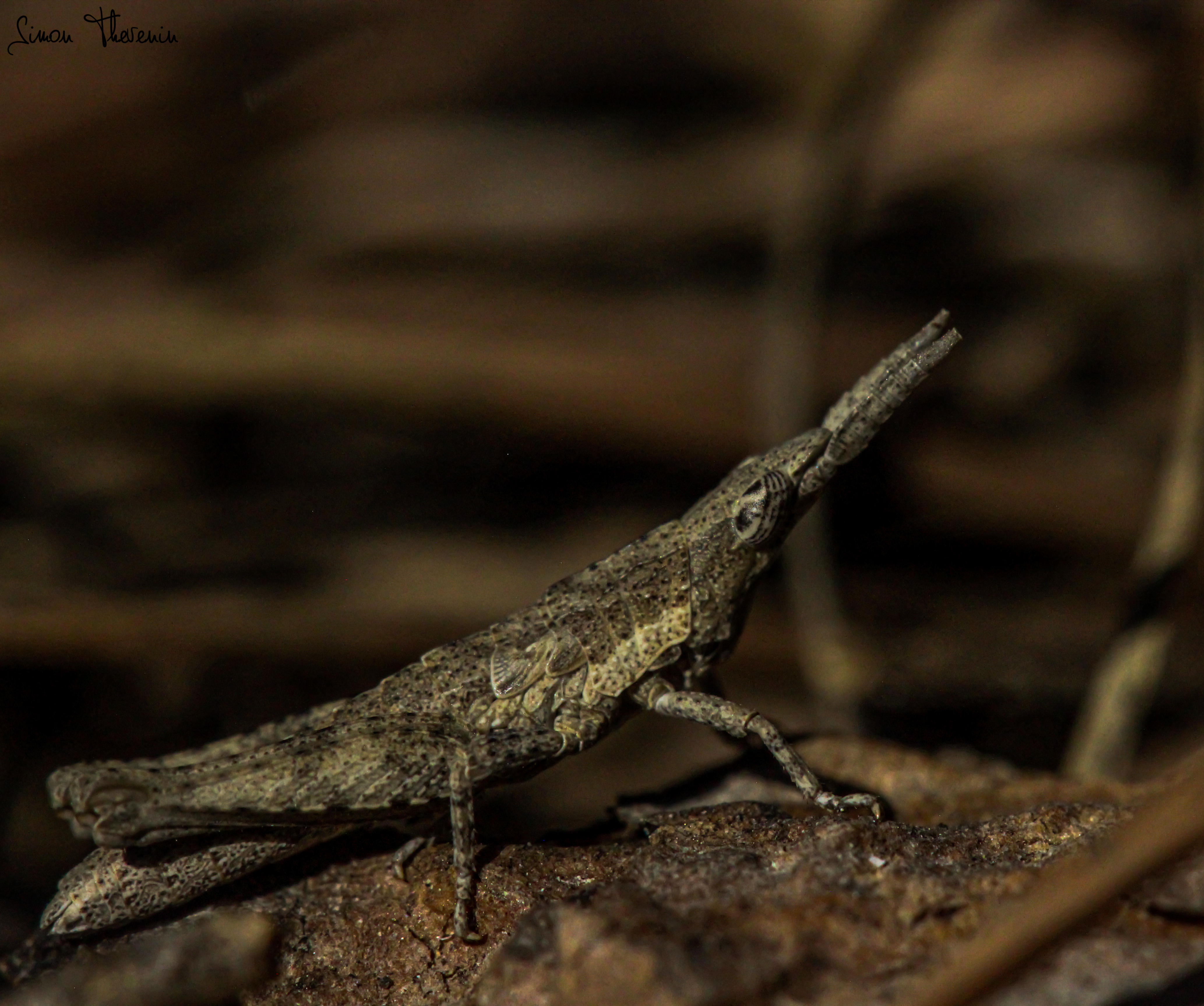 Macro photographie de Pyrgomorpha conica conica (Criquet printanier de la sous-espèce conica) stade larvaire prise à Mostoles (Espagne) par Simon Thevenin